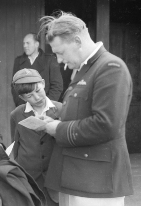 Gloucester, England. 1945-06-02. 411527 Flight Lieutenant A. W. Roper, the captain of the RAAF cricket team, signs autographs for youthful cricket enthusiasts during a match against an RAF representative team.